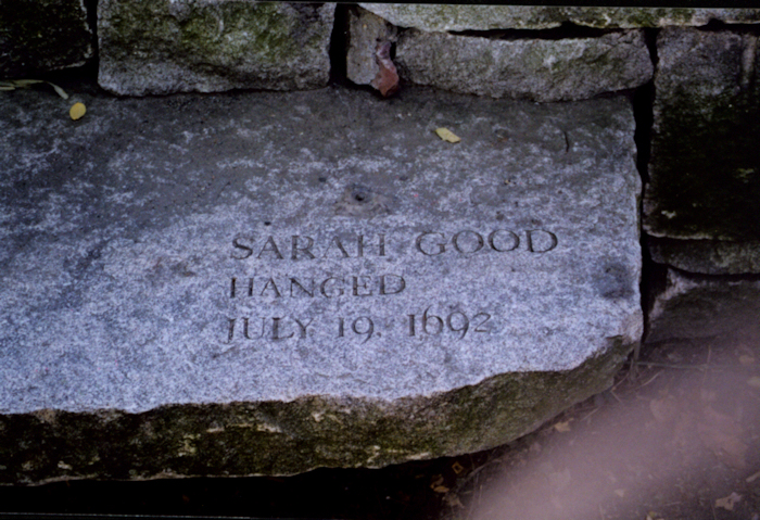 The stone commemorating the death of Sarah Good, hanged as a witch during the Salem Witch Trials in 1692. The stone is part of the Salem Witch Trials Tricentennial Memorial (dedicated in 1992) in Salem, Massachusetts, USA.